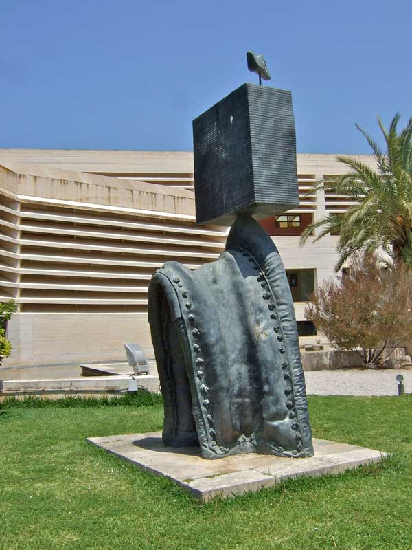 Sculpture park of Miro in Palma (Personnage gothique)